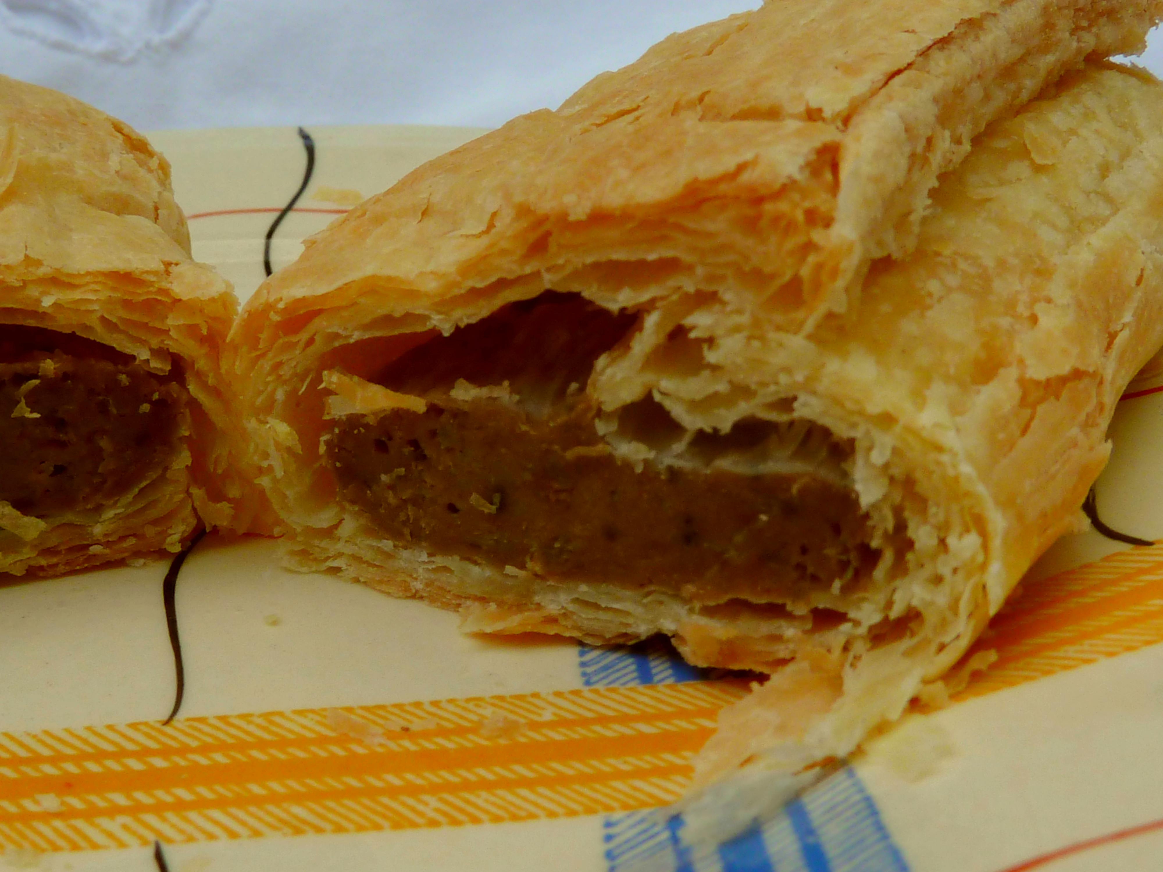 Meat-free sausage roll, a vegan item manufactured by Fry's Family Foods of Northamptonshire, England. The plate is Gaytime (1910-1915) by Royal Art Pottery, Longton, England.